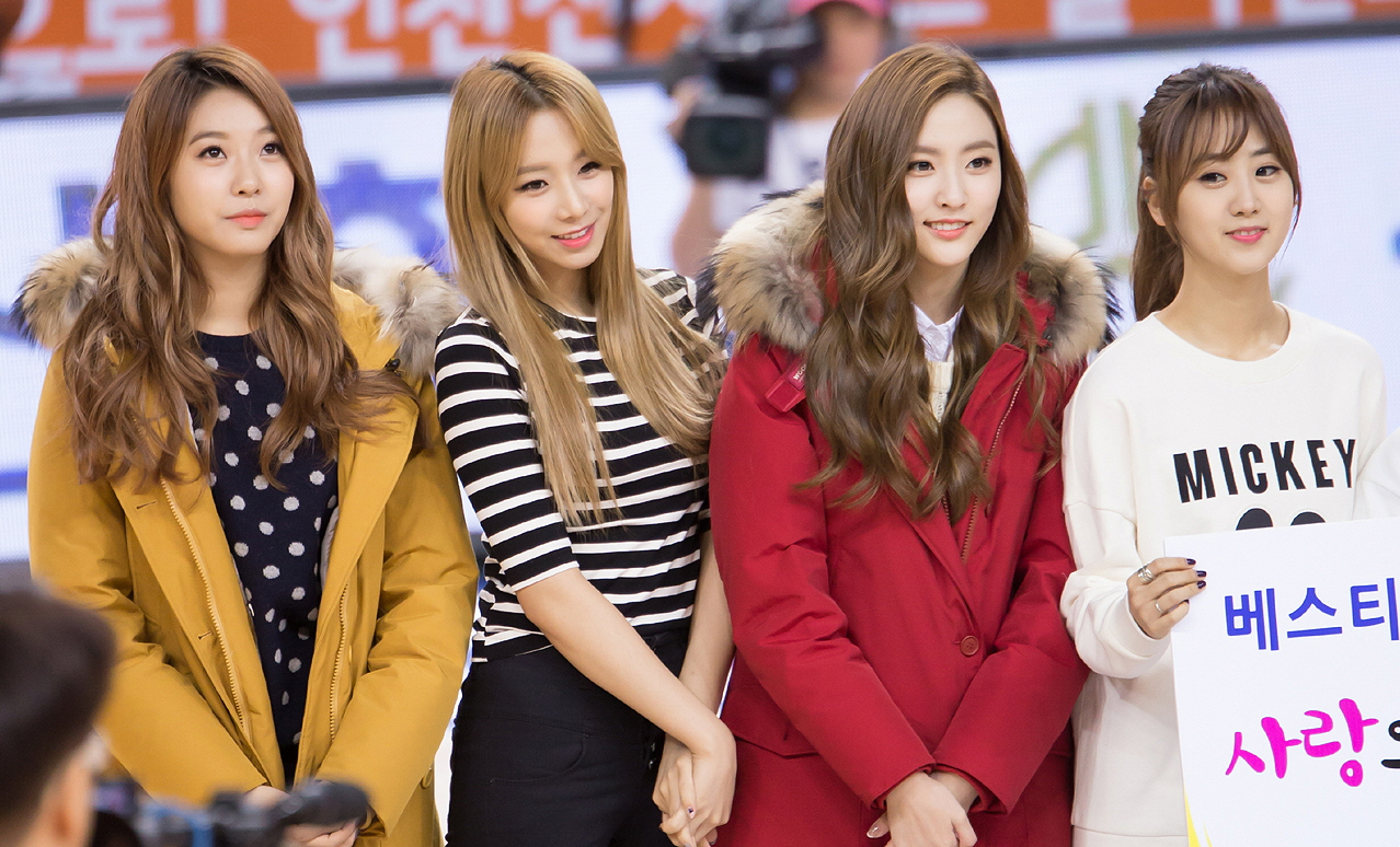 BESTie on Dec 13, 2014